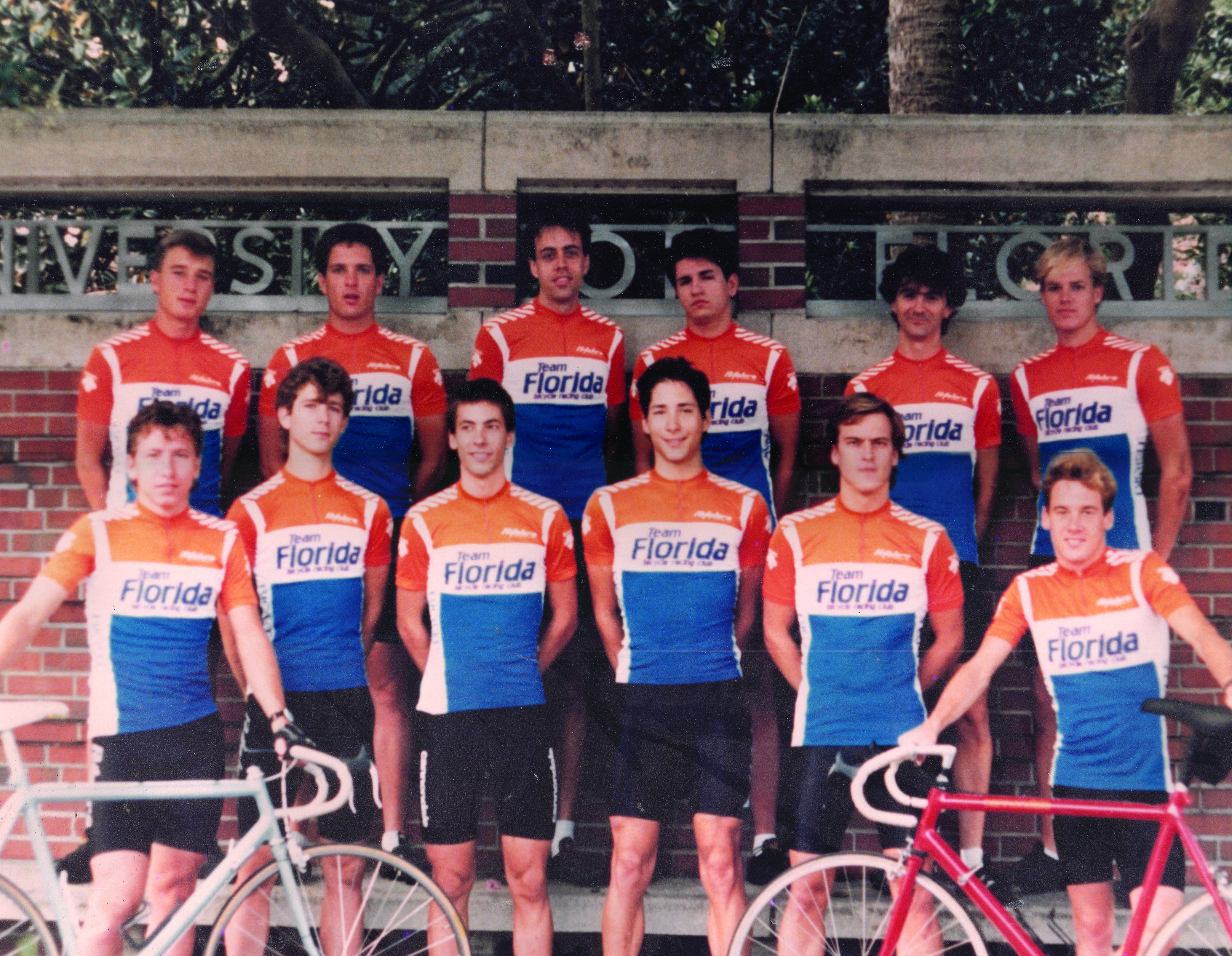 First team photo taken at the corner of University Avenue and 13th Street in 1986. Top Row L-R: Thom Cerny, JC Conte, TBD, Michael Franovich, Bruce Carnevale, Scott Edwards. Bottom Row L-R Tony McKnight, Andrew Kidder, John Lieswyn, Joseph Morelli, Sydney Maddock, Rick Shaefer. Not Pictured: Paul Staudhammer